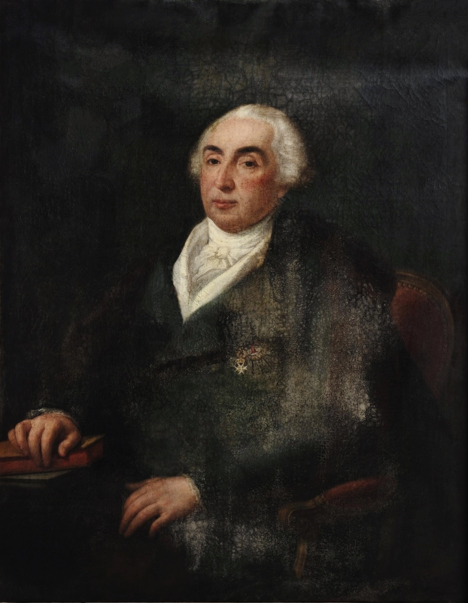 Portrait of Portuguese scientist Diogo de Carvalho e Sampayo (1750-1807)